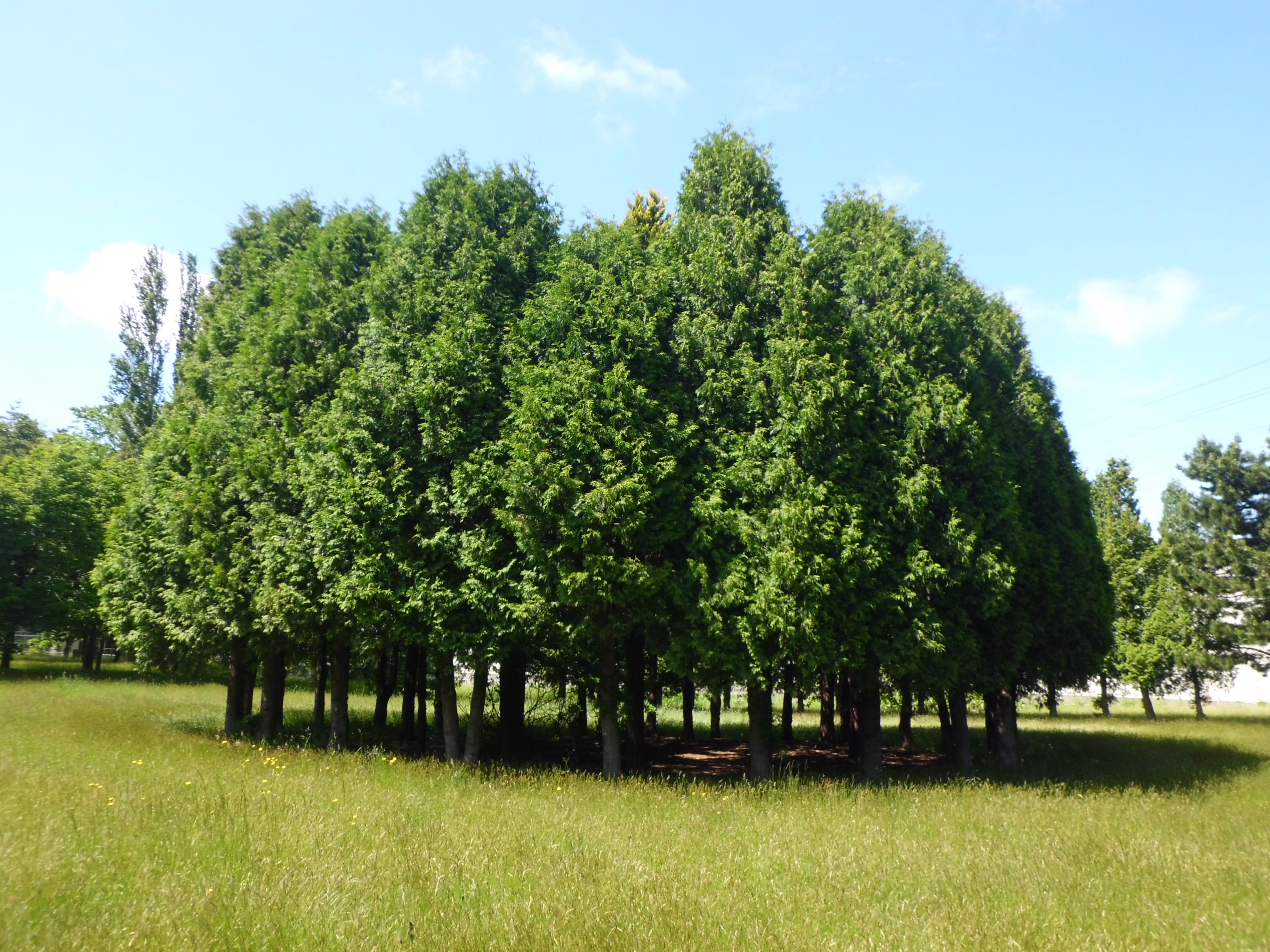 Wood Circle of Shiroishi Hondori Cemetery